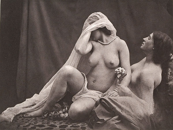 Two ways of life